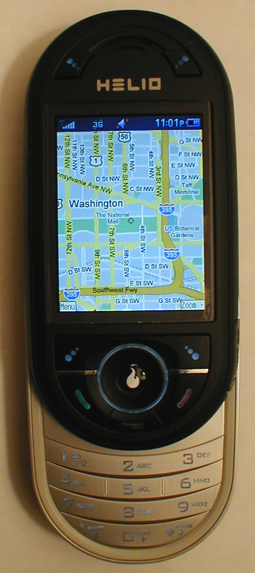 Helio Ocean running Google Maps in portrait mode, displaying telephone keypad.